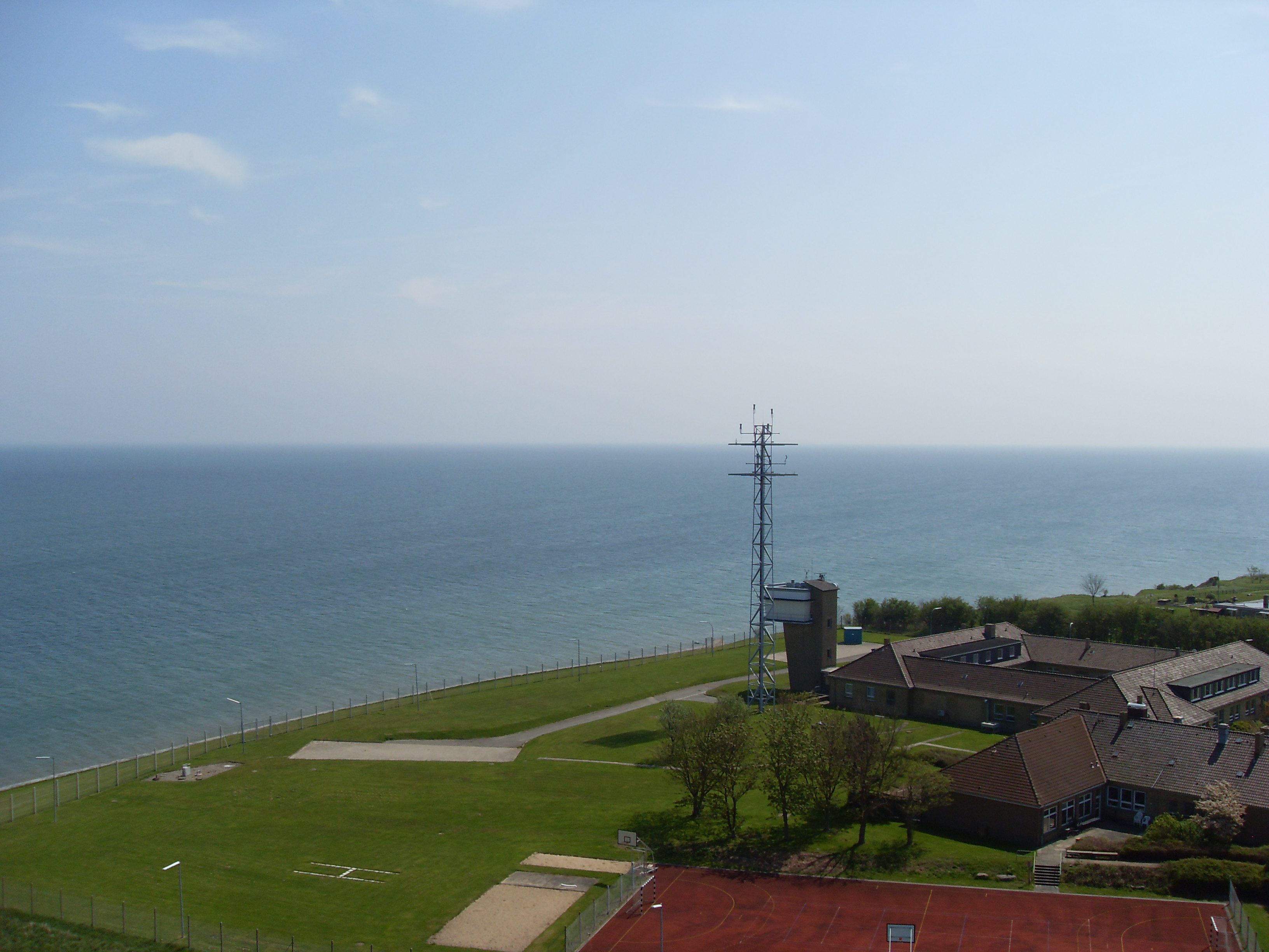 Marineküstenstation Marienleuchte on island Fehmarn